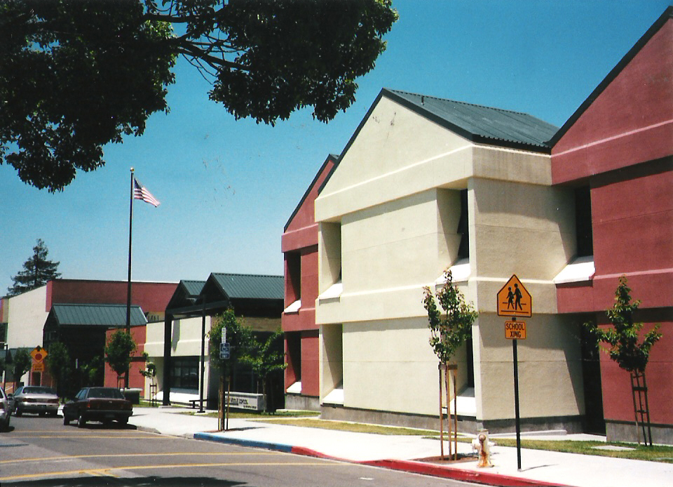 The front of Albany Middle School at its location at 1259 Brighton Avenue. Photo taken June 2000.